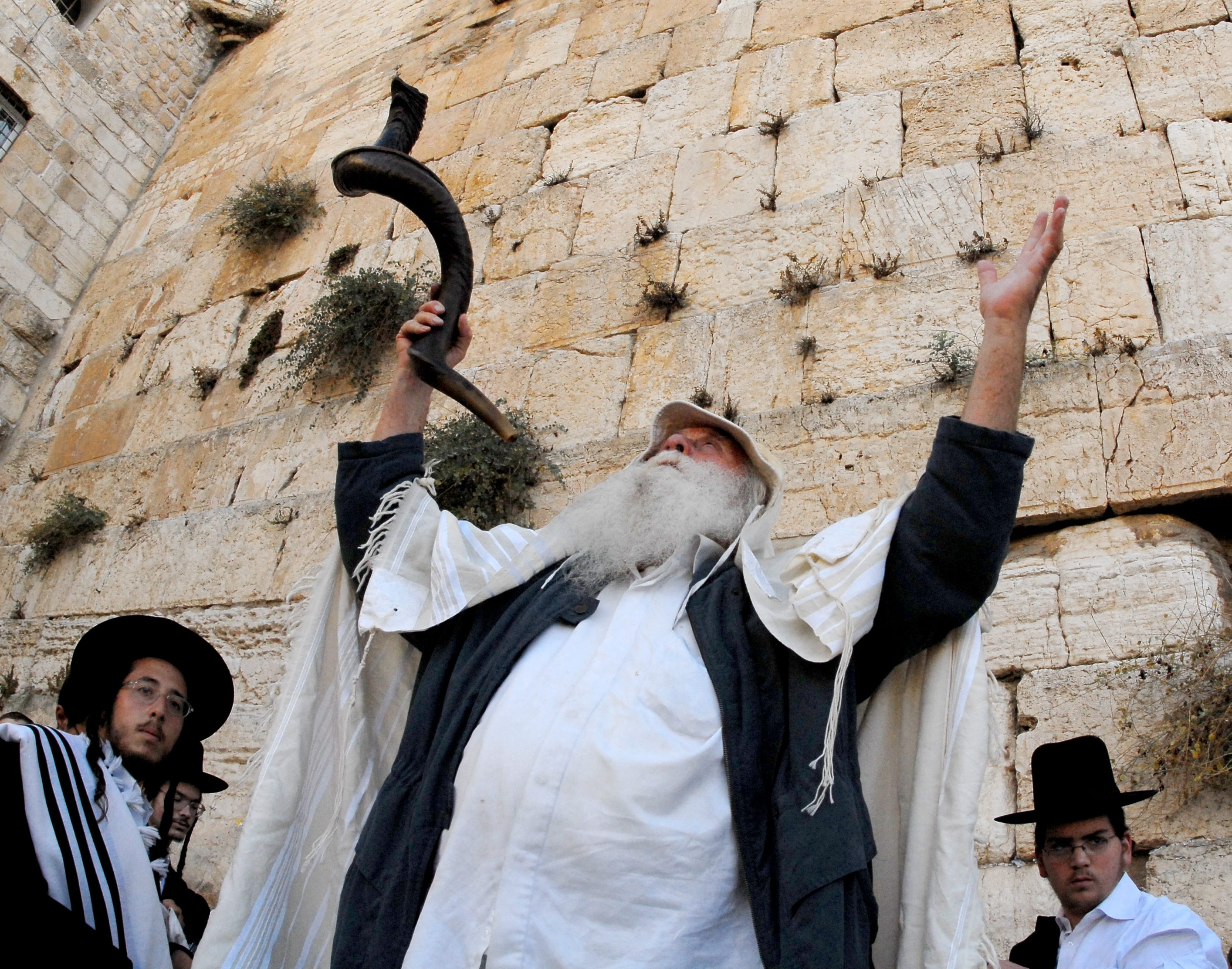 “Slichot” prayer service during the Days of Repentance preceding Yom Kippur at the Western Wall in Jerusalem's Old City. GPO photo by Mark Neyman.